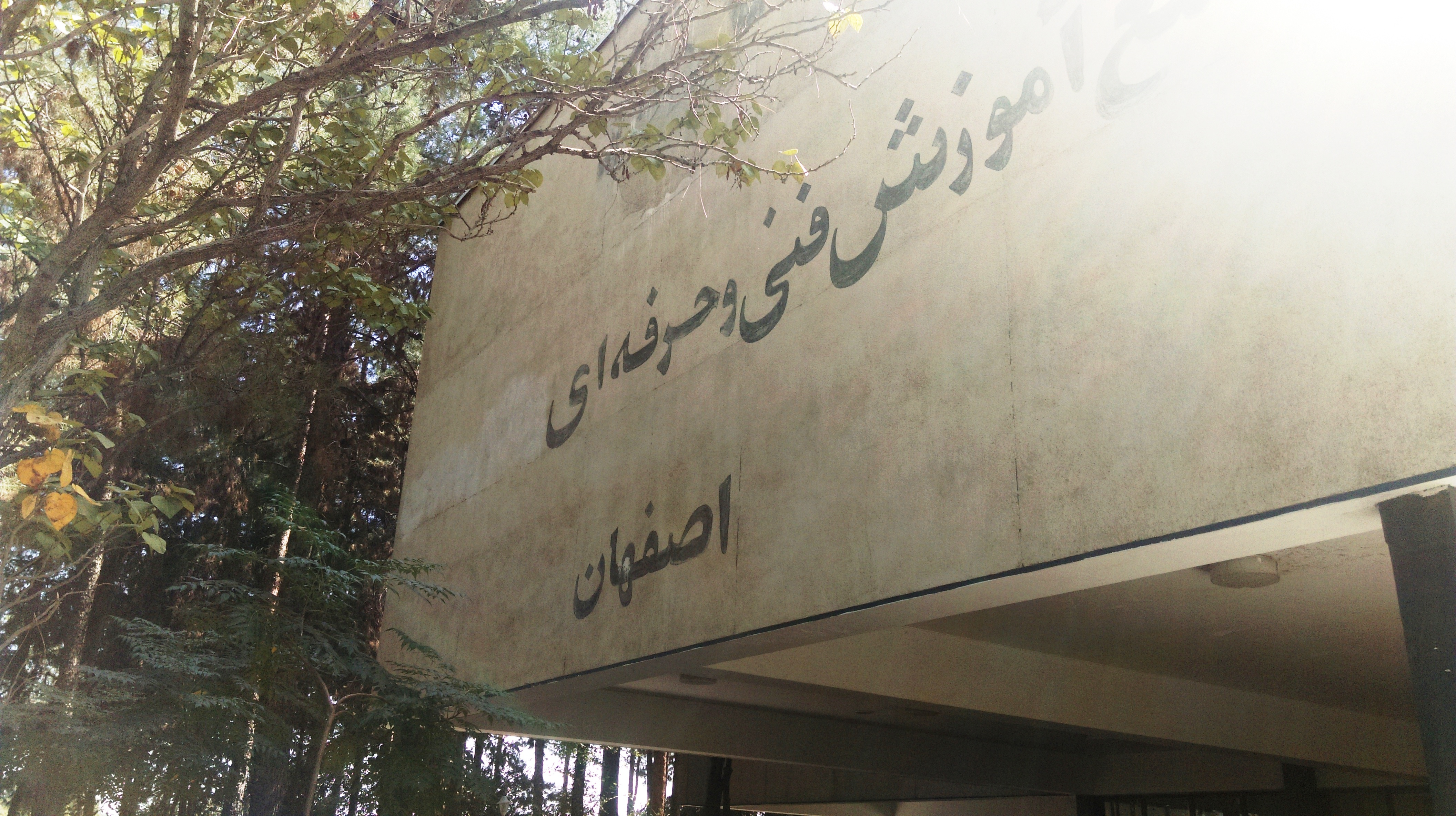 "Pahlavi" dynasty (suffix) is obviously paint-covered by Islamic republic censorship policies on first block.